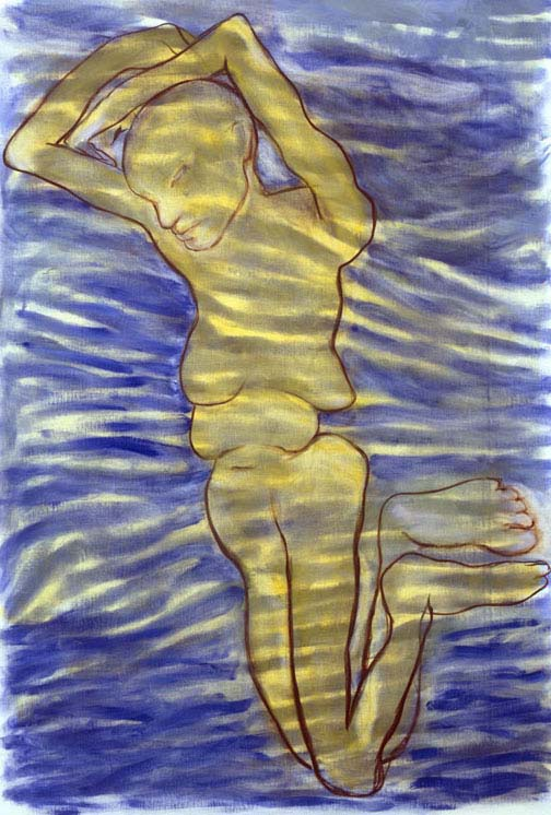 1996 - ASHES IN THE WIND 82"x54"